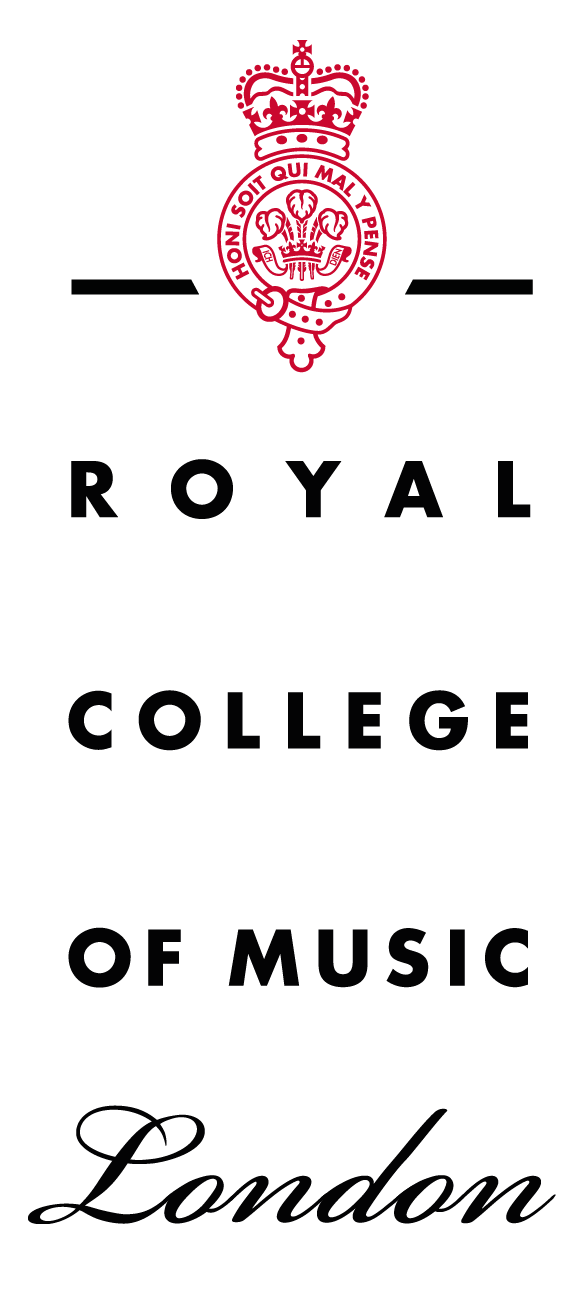 Royal College of Music Logo as of December 2015